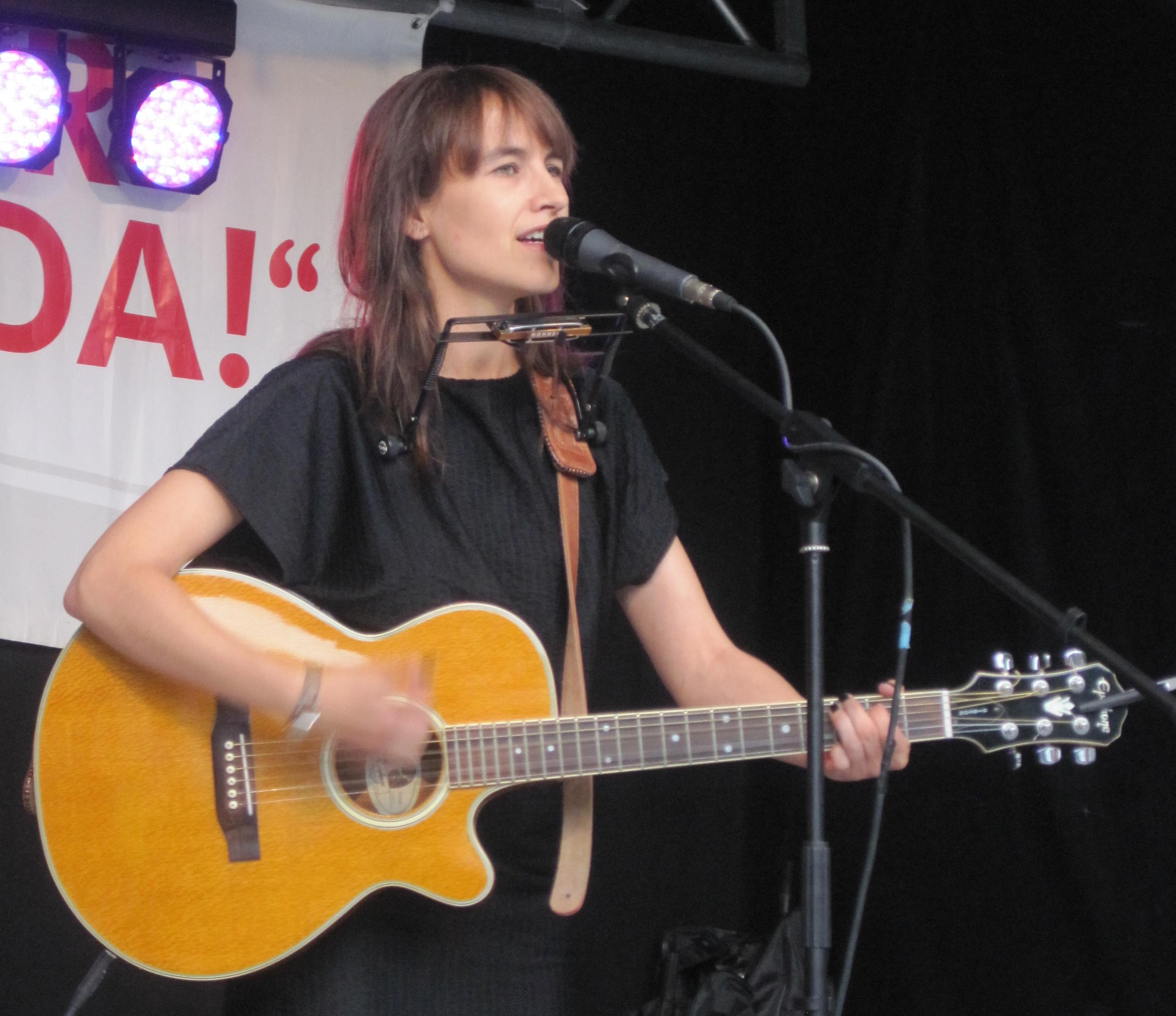 Maike Rosa Vogel, Göttingen, Germany check usage